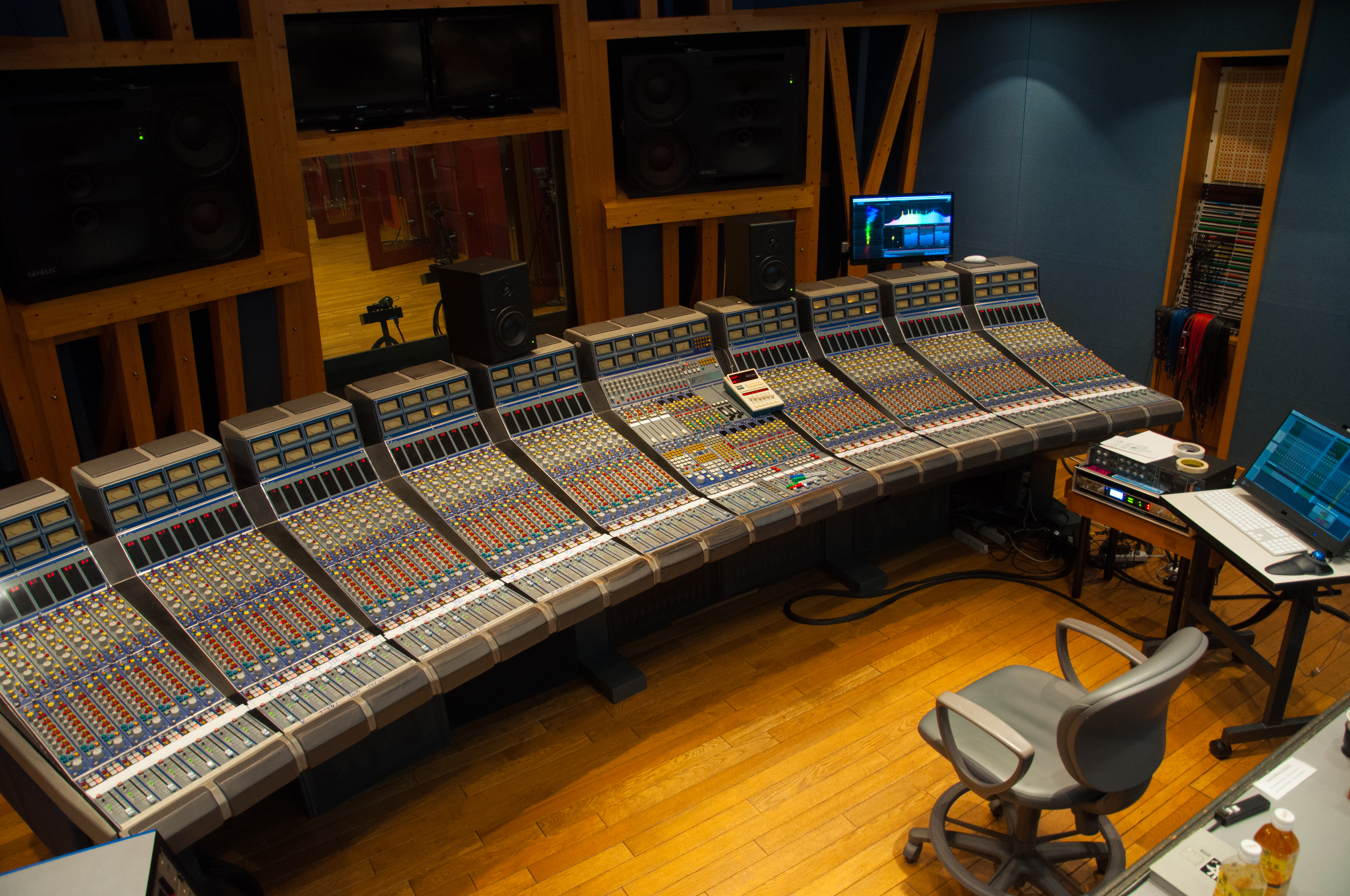 Focusrite Studio Console @ Sound City Setagaya DSC 1889